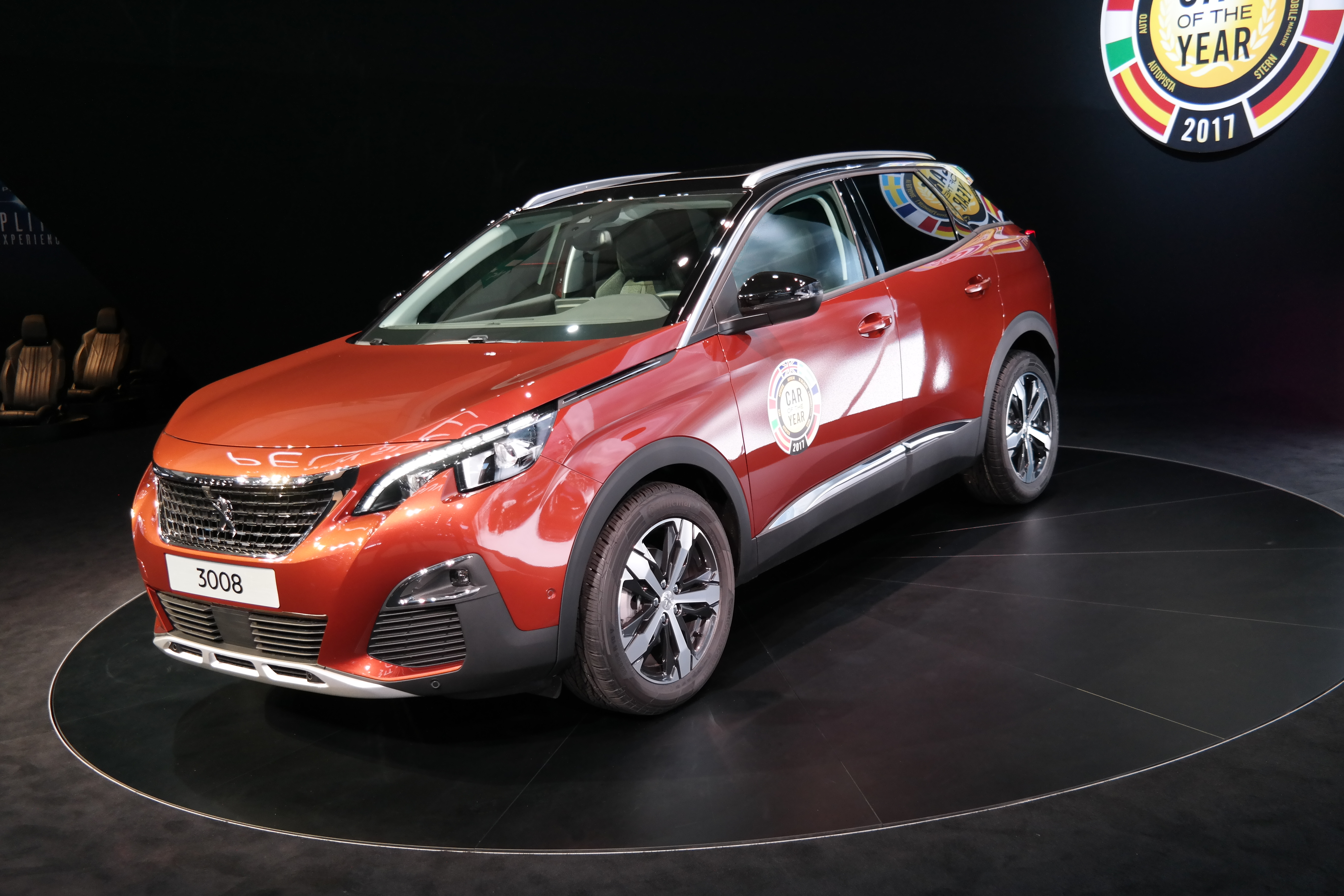 Geneva Motor Show 2017 (photo taken on the first press day)